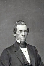 Public domain file of Aaron Harding from of Aaron Harding.